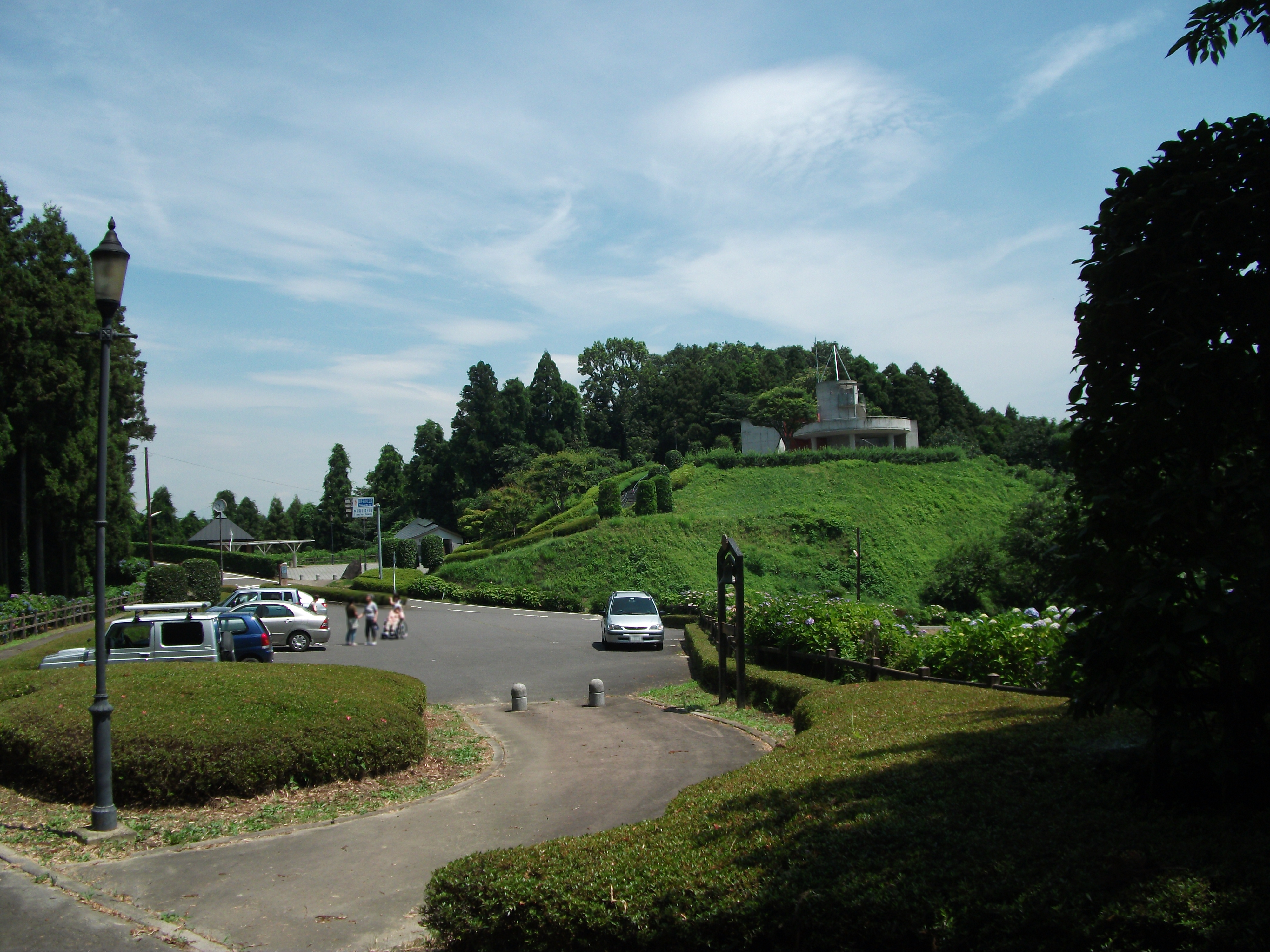 Chieko-no-mori_Park (Nihonmatsu, Fukushima, Japan)